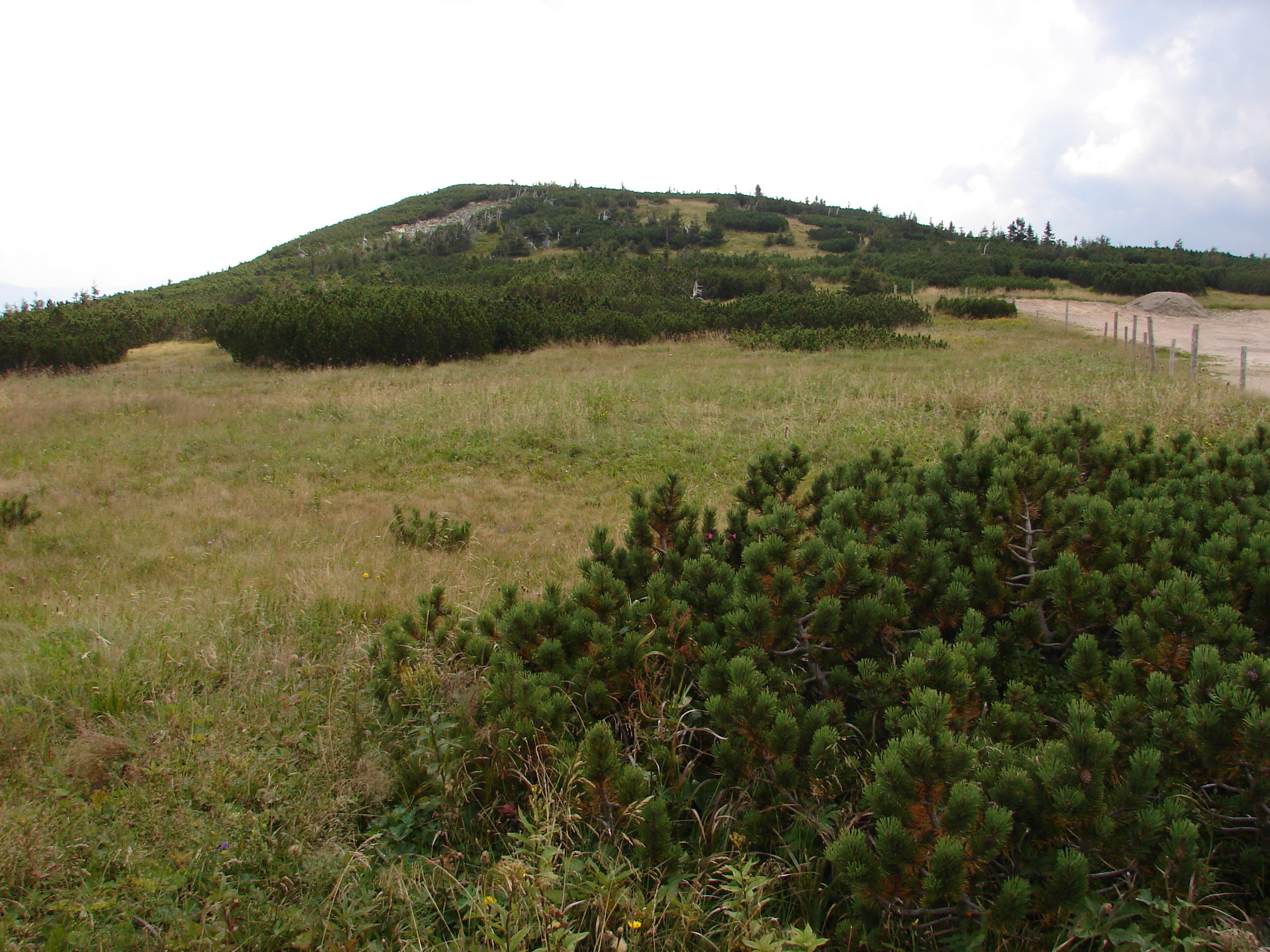 Zlaté návrší in the Giant Mountains (Krkonoše)